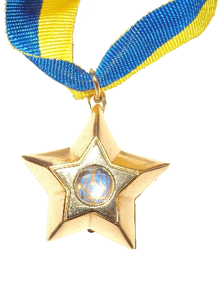 General's of the Army of Ukraine star